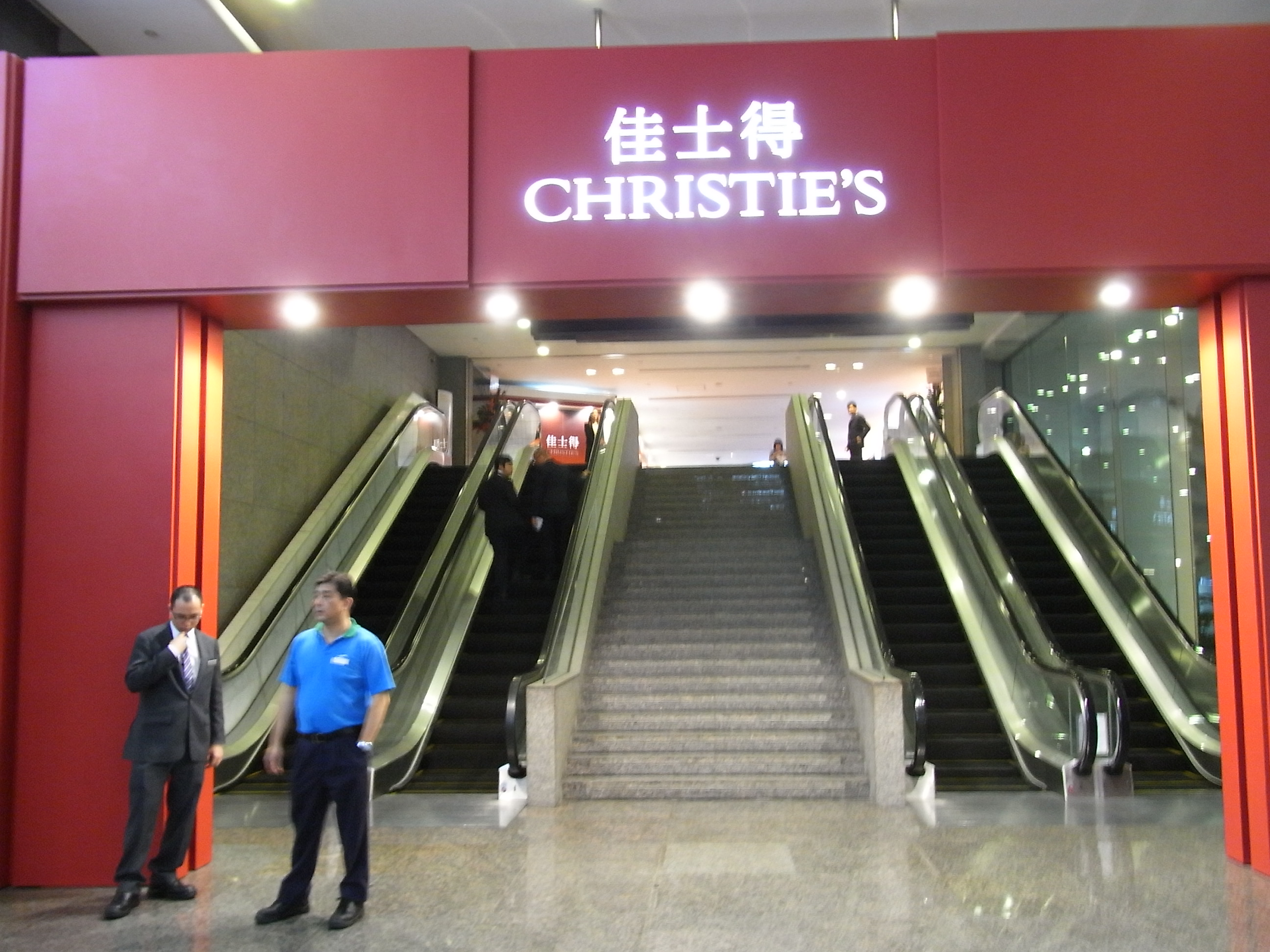 [1] 佳士得 拍賣前 預展, Christie's Auction preview exhibition in May-2012 Hong Kong, China